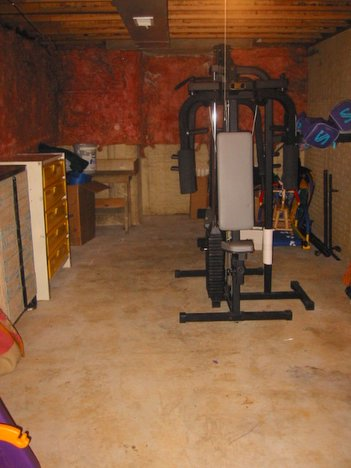 An unfinished basement used for storage and exercise. Basement, after tidying.